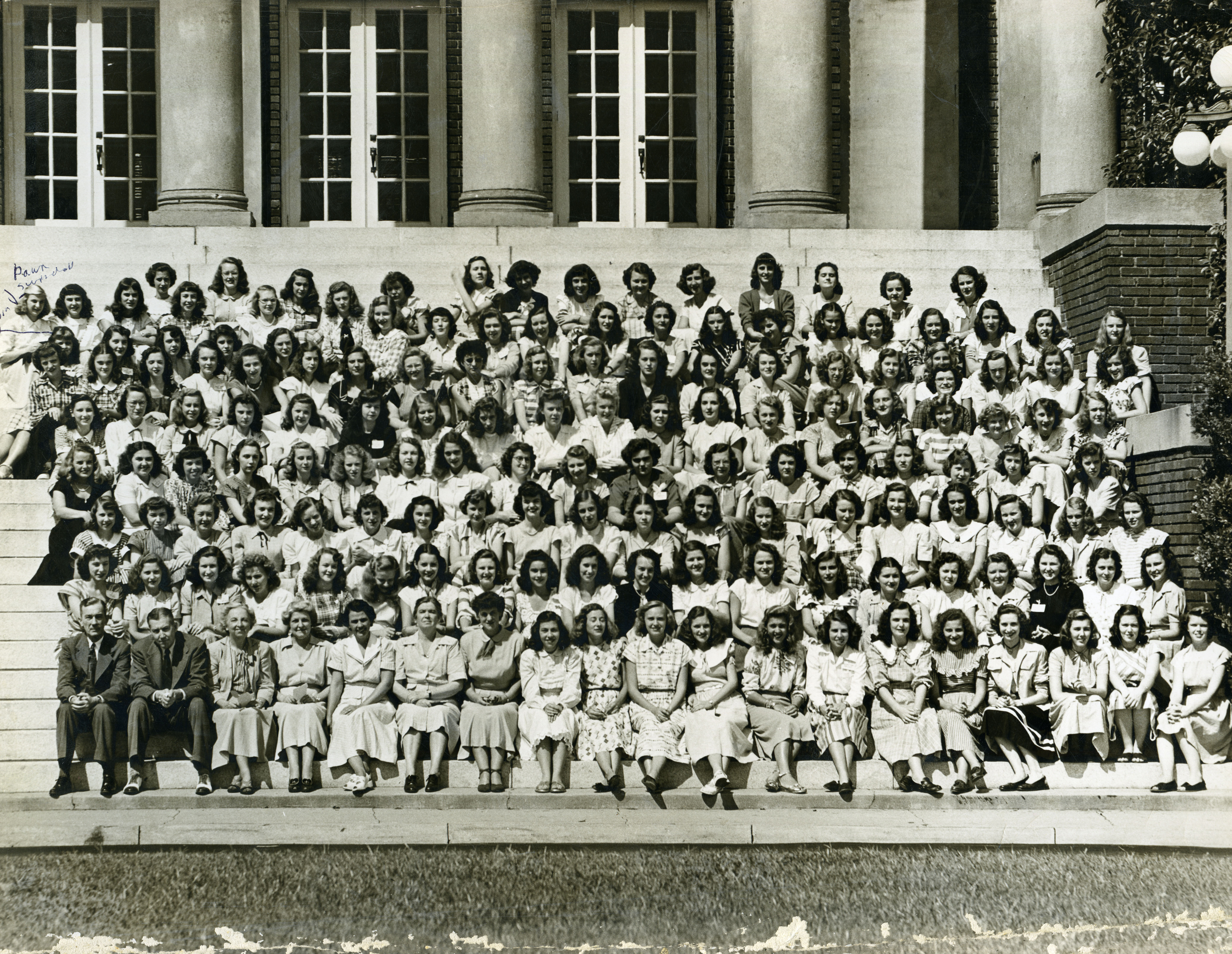 Students and faculty on steps of the main building, Meredith College, Raleigh, NC, c.1948. From the Wayne County Public Library Photograph Collection, PhC.240, State Archives of North Carolina, Raleigh, NC.